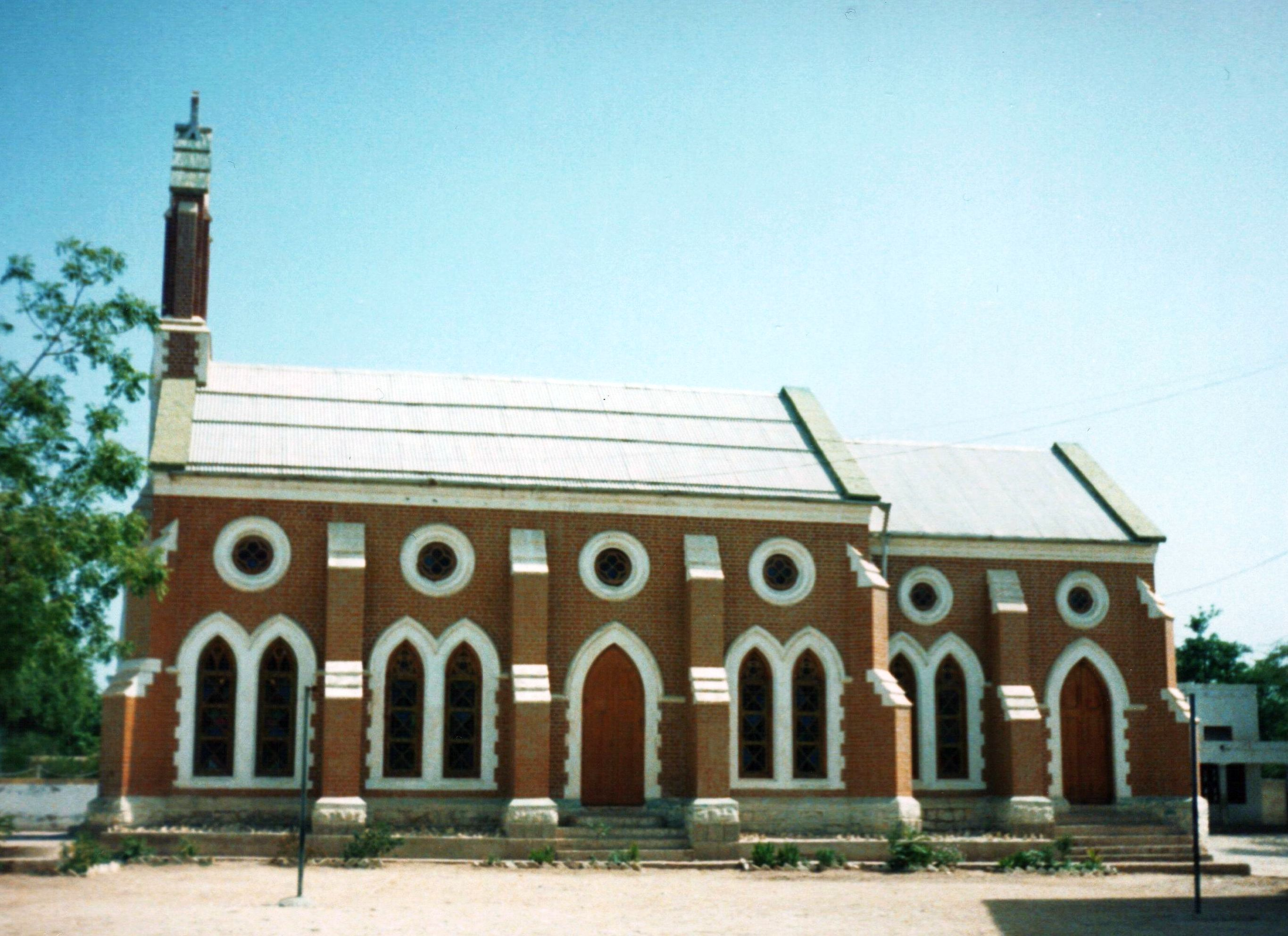 St Mary's Catholic Church, Sukkur, Pakistan. This picture was taken by me in 1992.